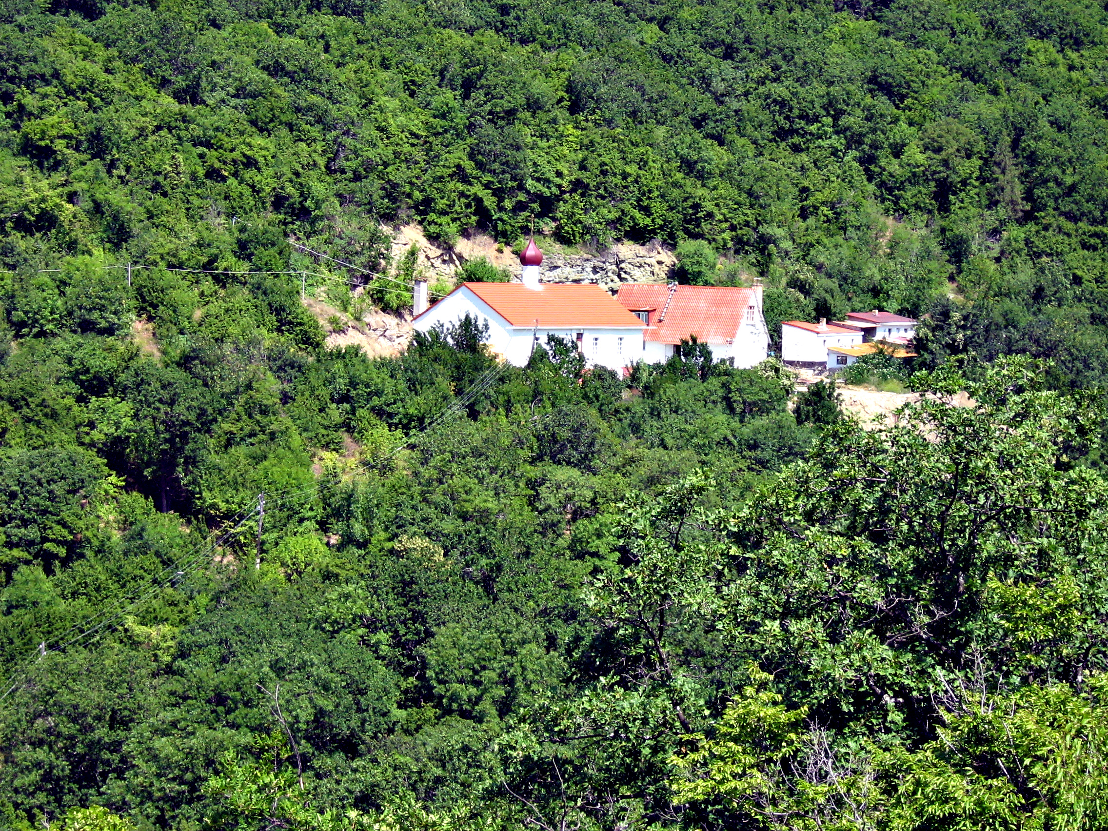 Kyzyltash Monastery. Crimea. Ukraine.